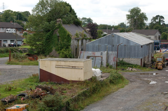 Old railway station at Laurencetown. The GNR(I) line from Banbridge to Scarva closed in 1955. Laurencetown was the principal station on the line. This is what remains 51 years after closure (looking towards Scarva). The station is the ivy-covered building.